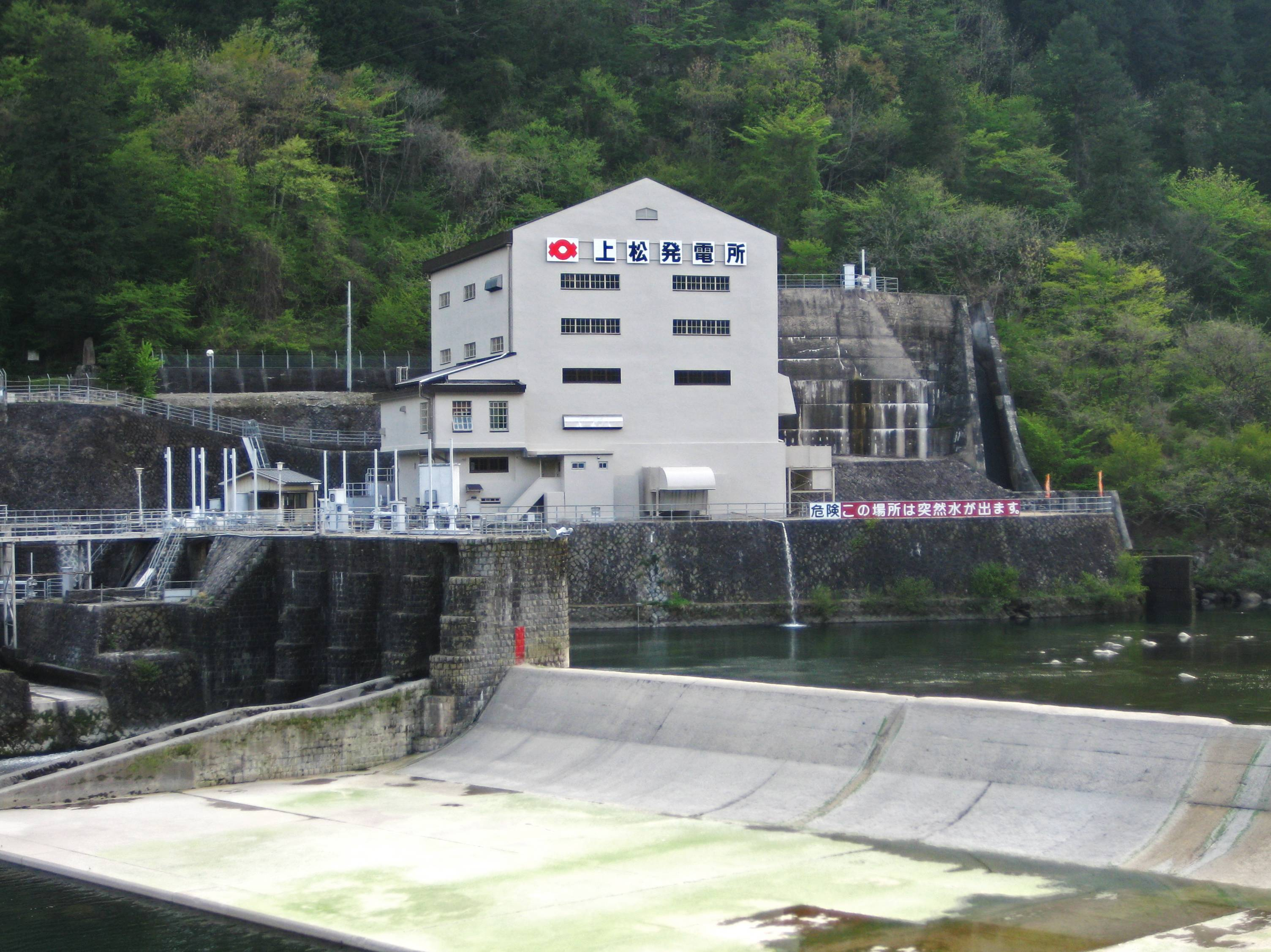 Agematsu power station.